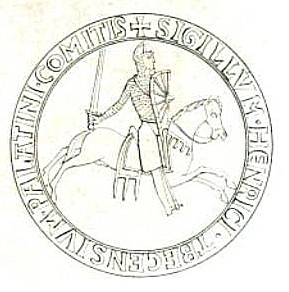 Henry I of Champagne